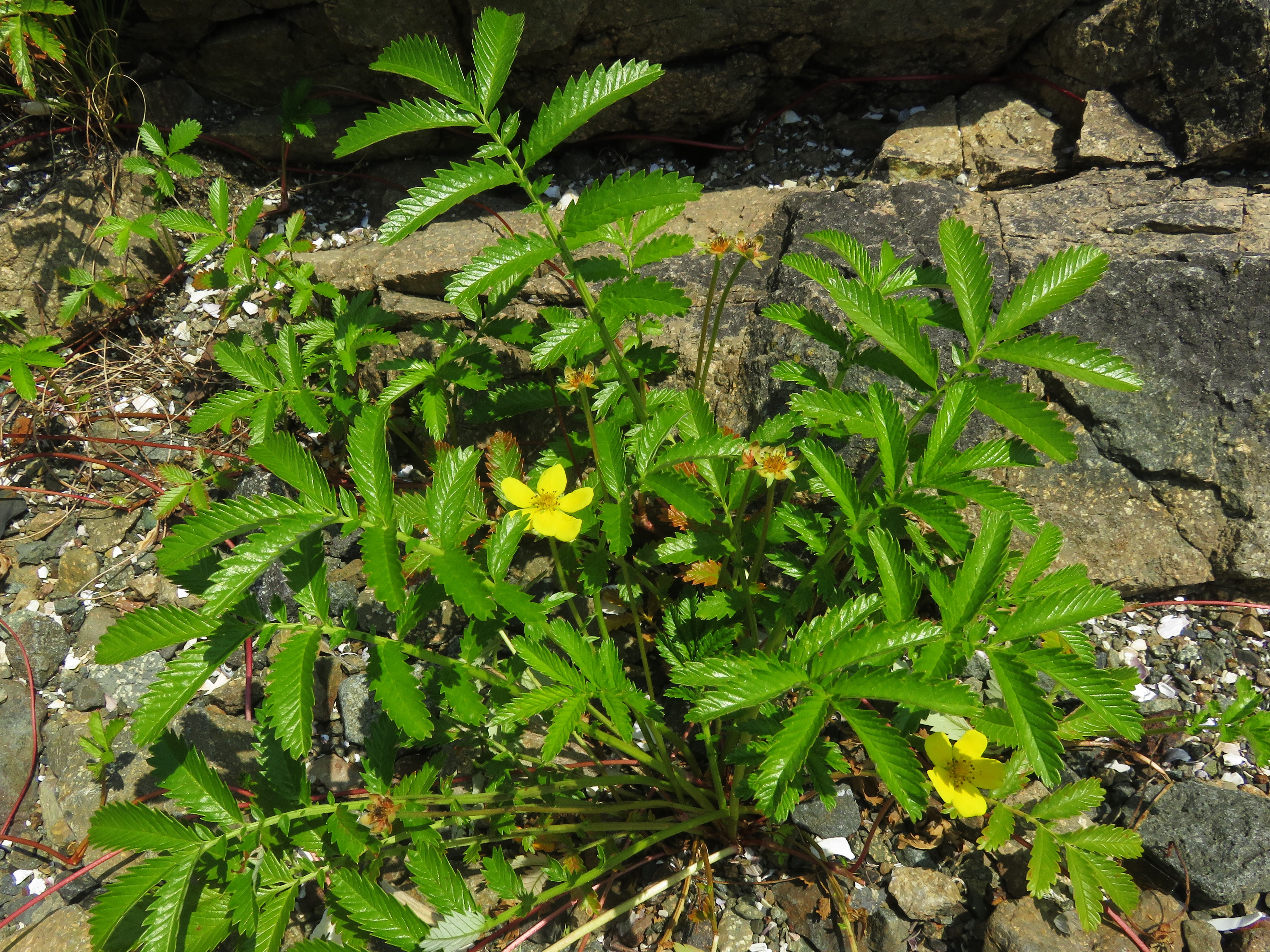 Argentina anserina, Tanesashi Coast, Aomori pref., Japan